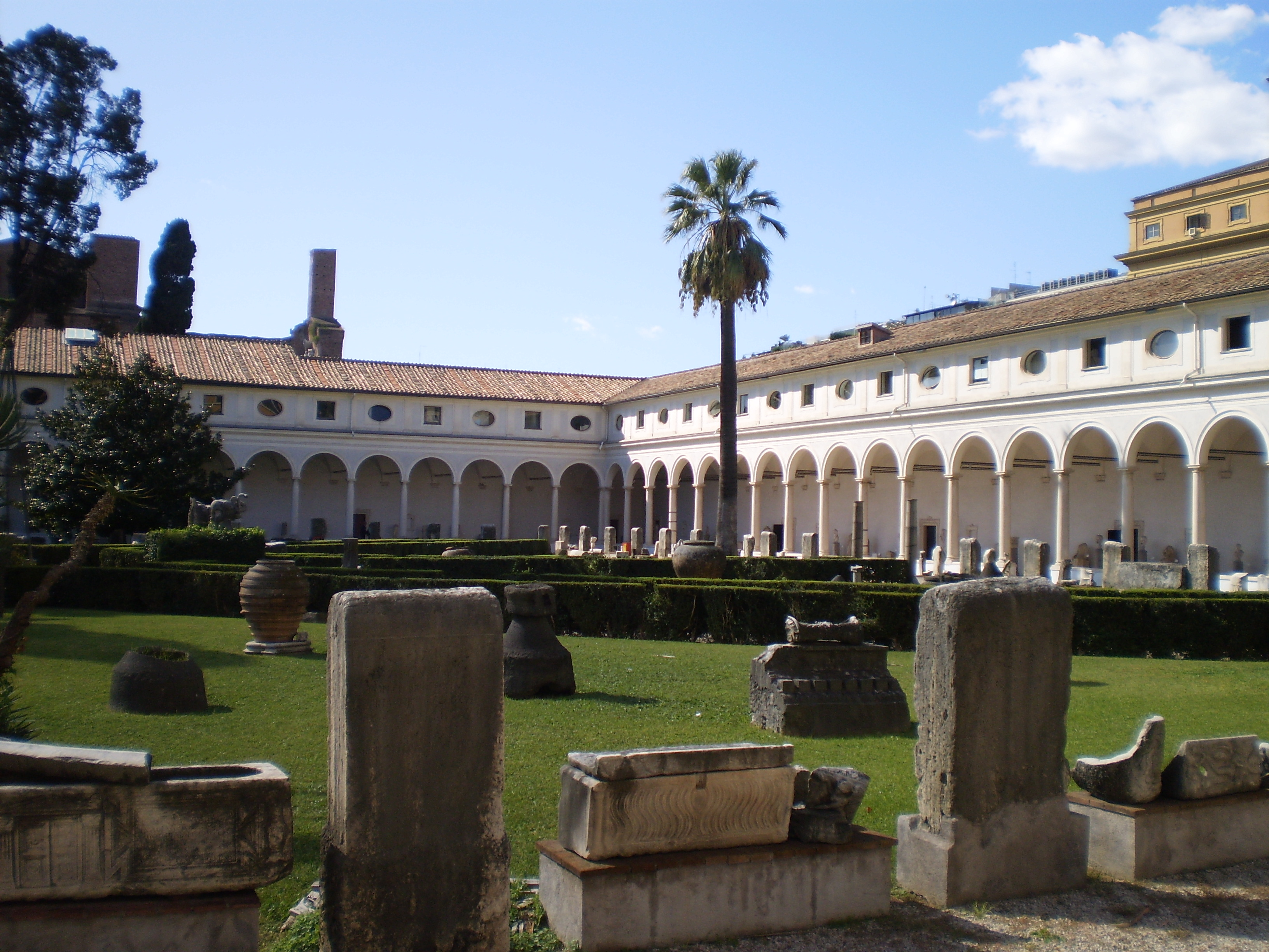 Cloister from Michelangelo with ancient arts